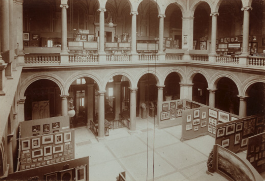 Expo of the Photographische Gesellschaft in Vienna, 1904